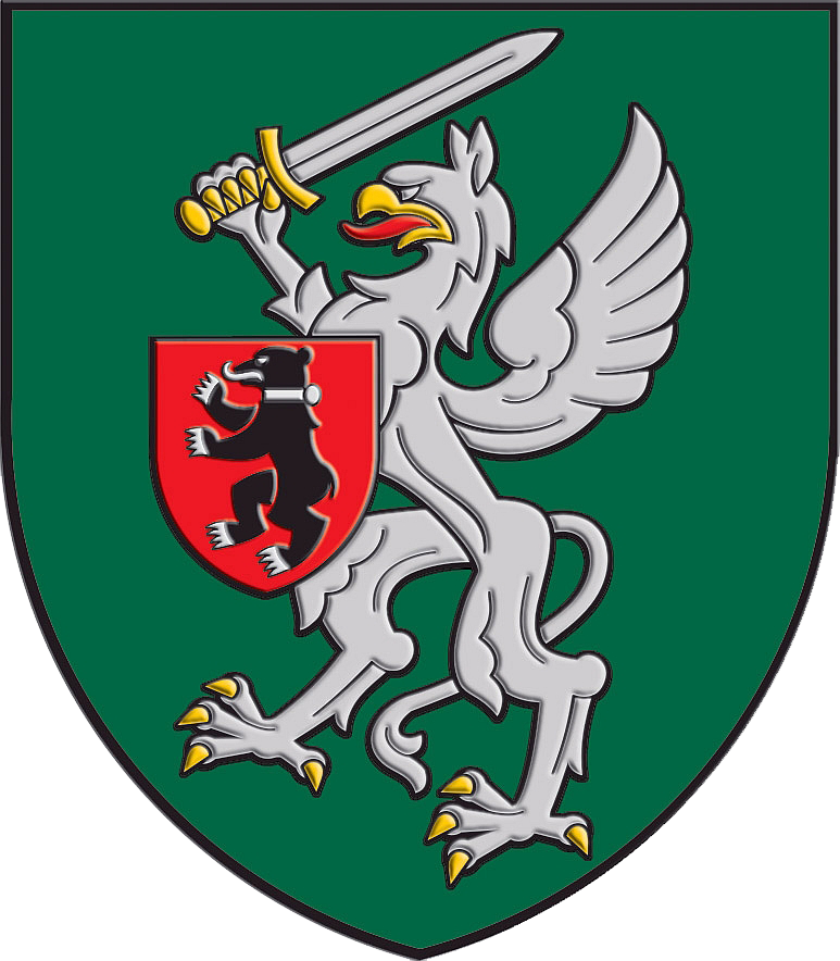 Insignia of the Lithuanian Zemaitija Brigade